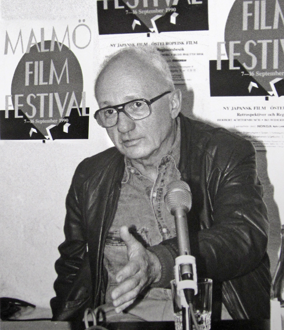 Karel Kachyňa visited Malmö Film Festival 1990.